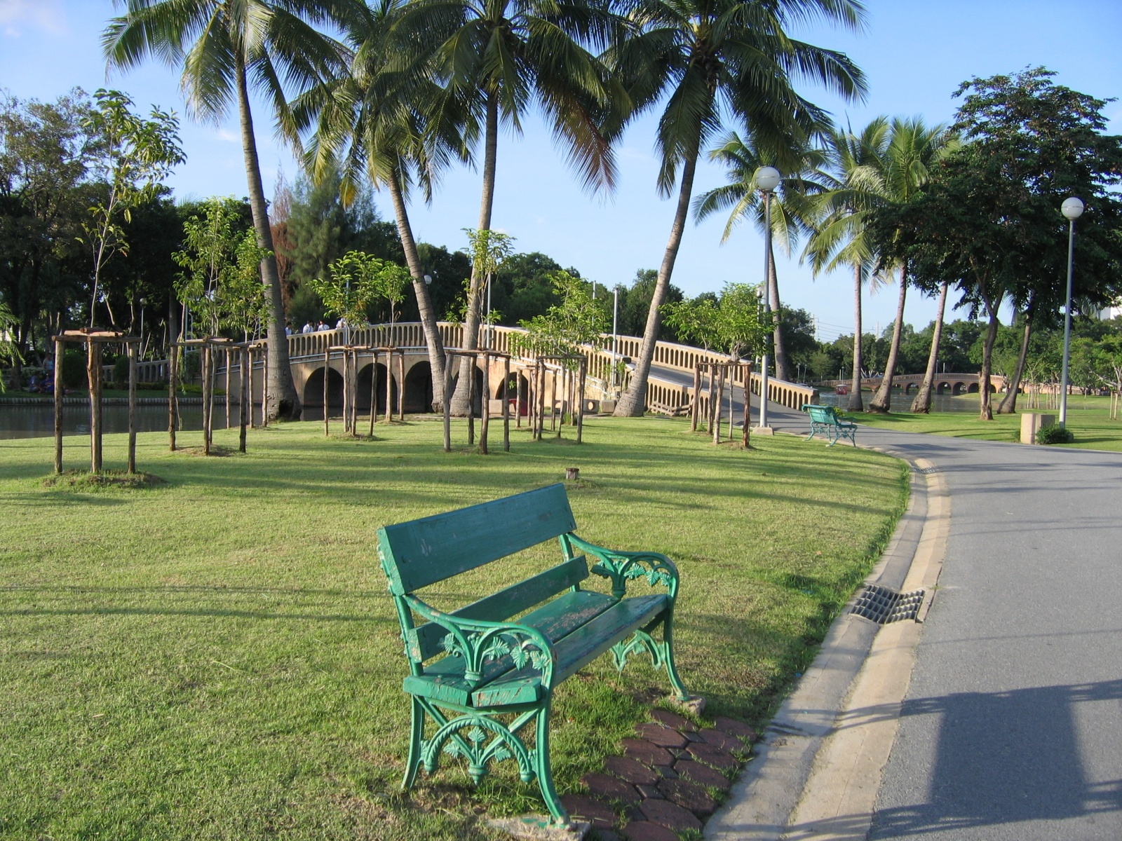 Chatuchak Park, Chatuchak District, Bangkok, Thailand.